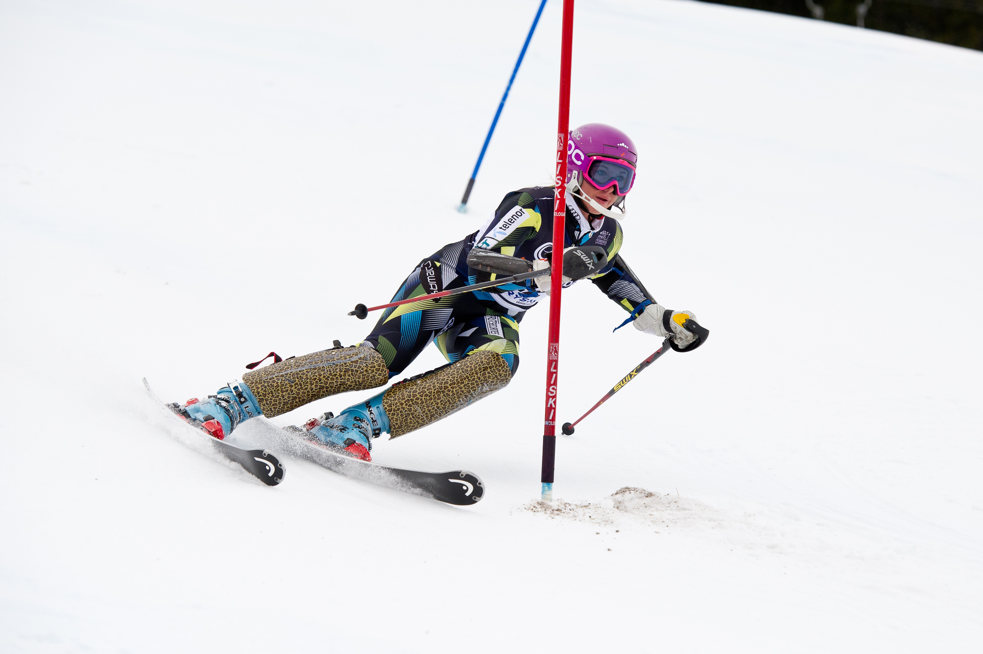 Tonje Sekse competes in the 2011 women's slalom event at Trysil in Norway. photo © Ola Matsson